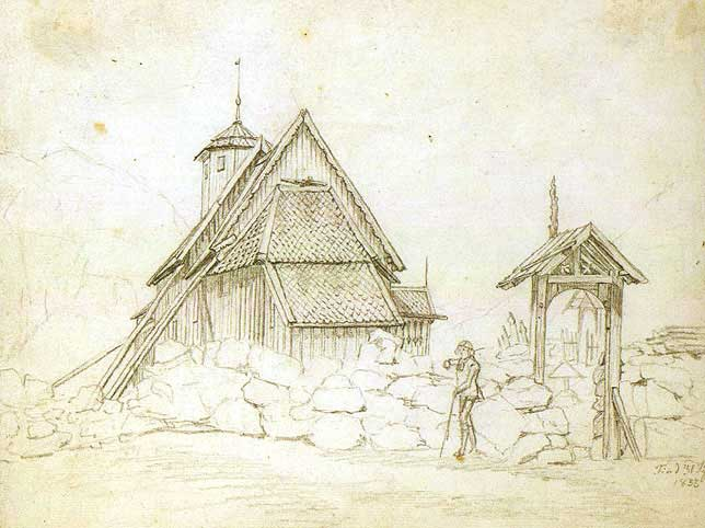 Atrå stavechurch in Norway. Drawing from 1833